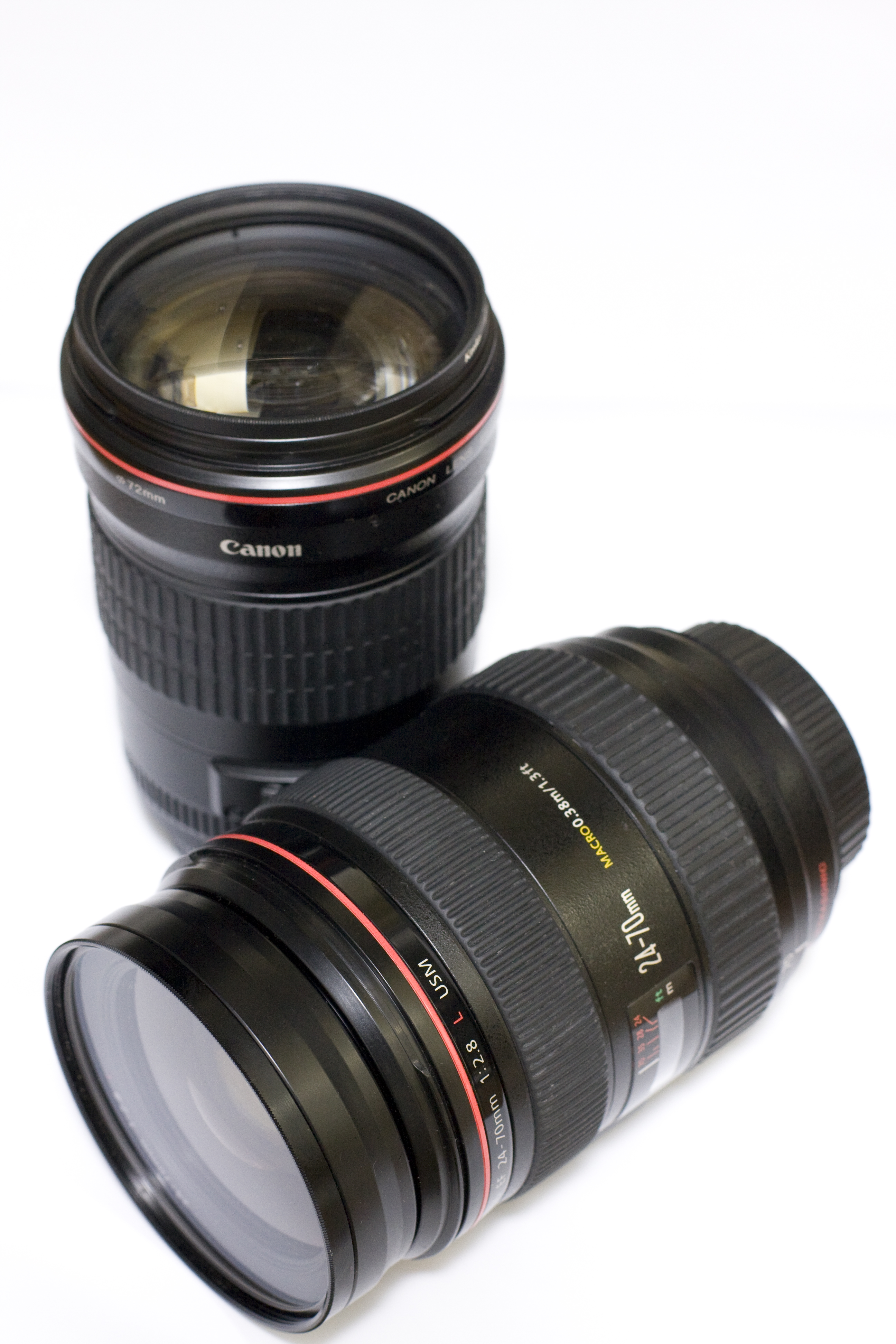 Canon EF 135mm f/2L lens and Canon EF 24-70mm f/2.8L lens